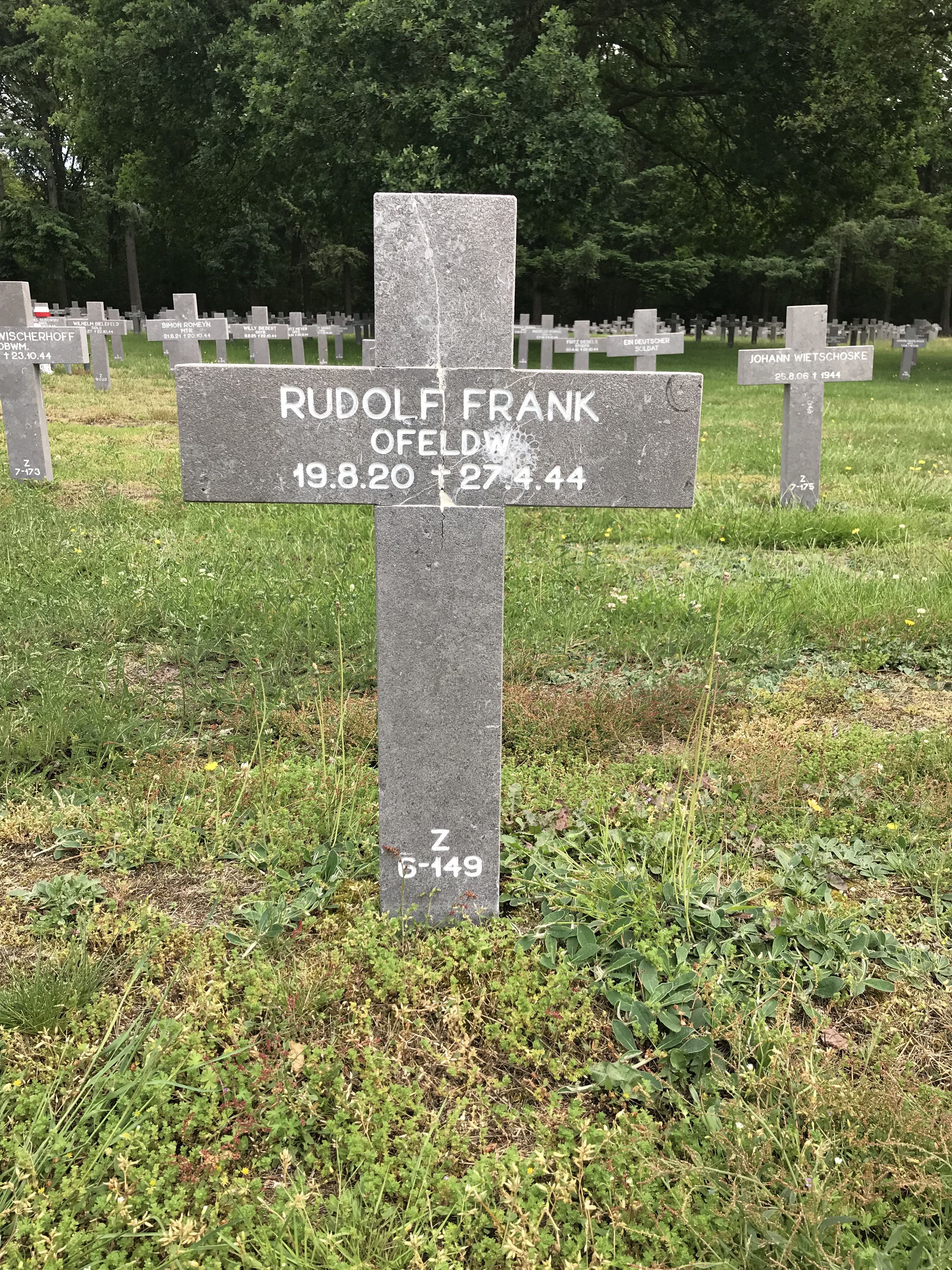 Grave of Rudolf Frank Z-6-149